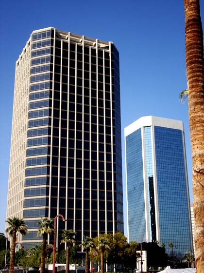 Midtown Phoenix